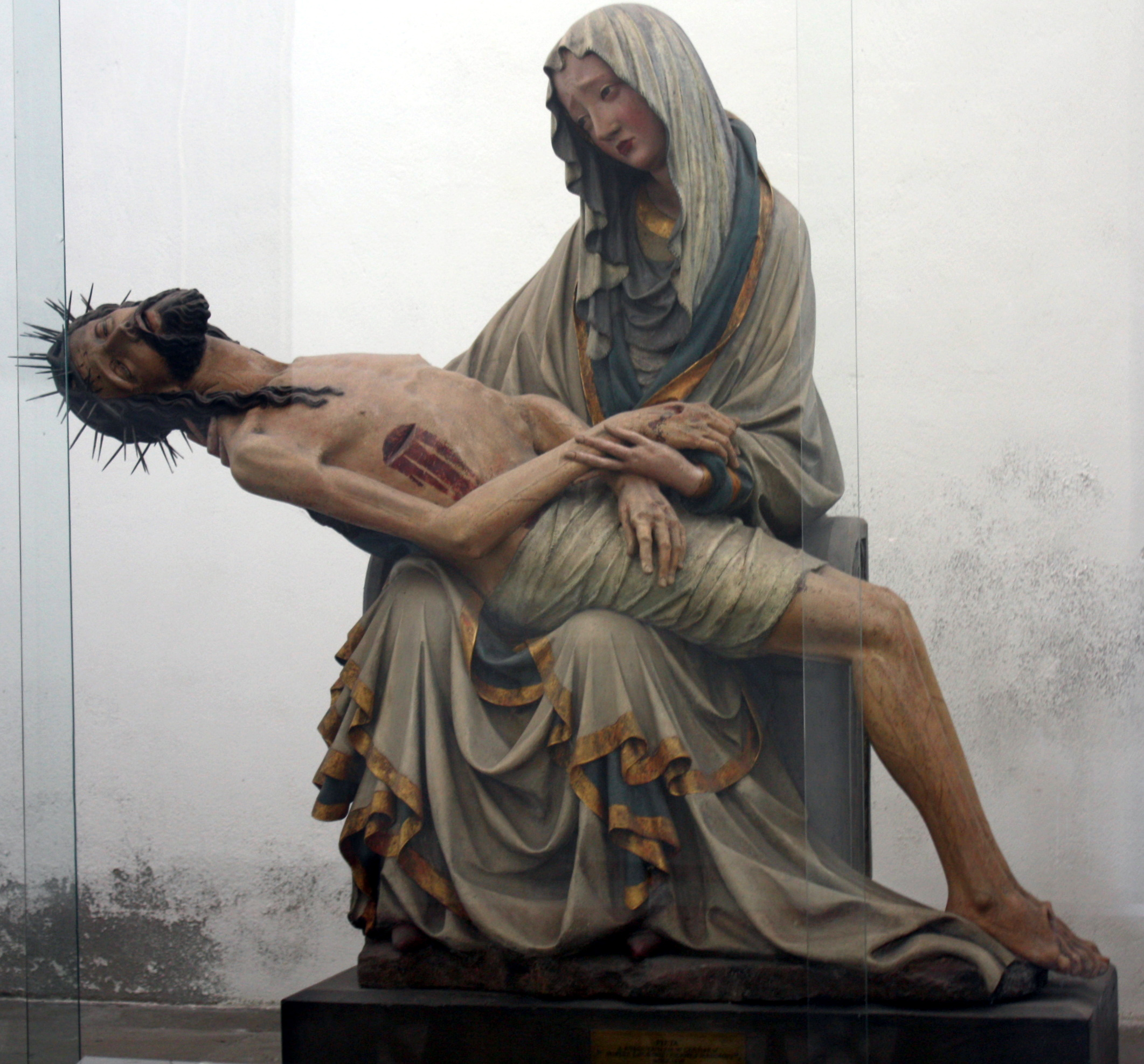 Gdańsk St. Mary's Church. Gothic Pieta